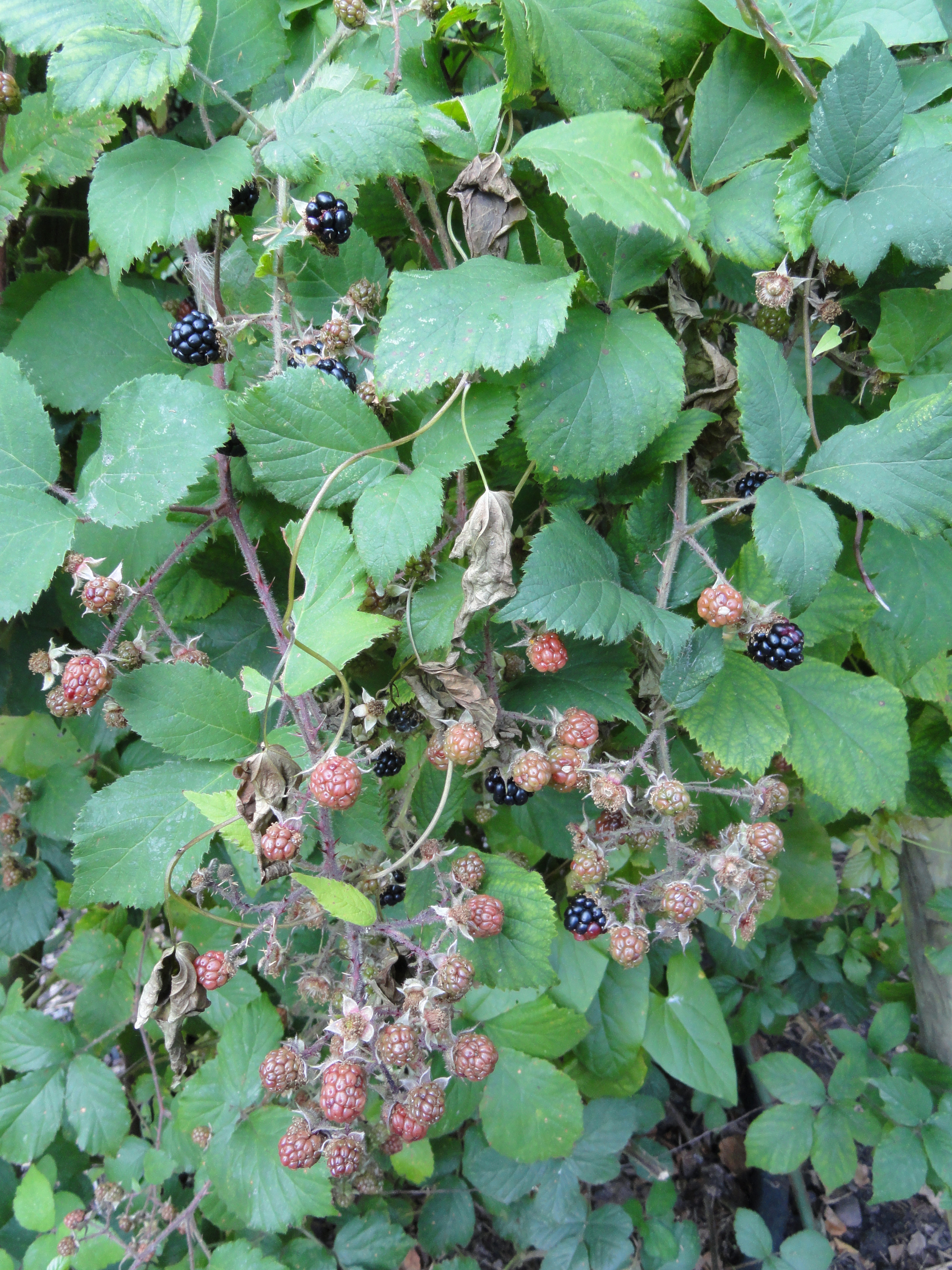 Botanical specimen in the Botanischer Garten, Frankfurt am Main, located at Siesmayerstraße 72, Frankfurt am Main, Germany.